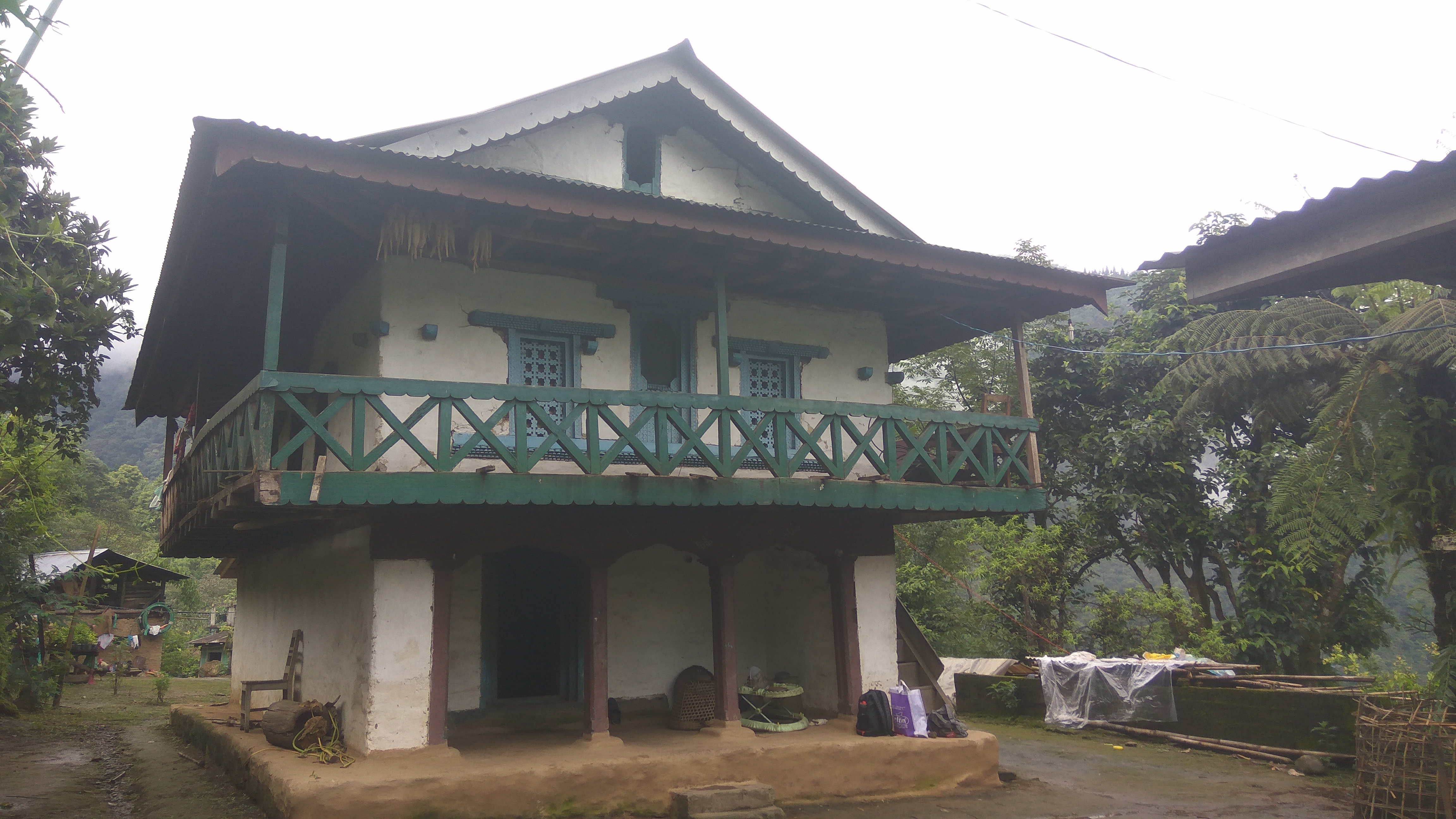 Vernacular house of the Limboo( Limbu, Yakthung, Subba) tribes of Sikkim, North-East of India. It is similar to the Limbu house in Eastern Nepal. This house exists in Hee- kengbari village in West Sikkim, Sikkim. Its atleast 75-80 years old. The house of Limboos is a symbolic representation of Yuma- a goddess of the Limboo community.